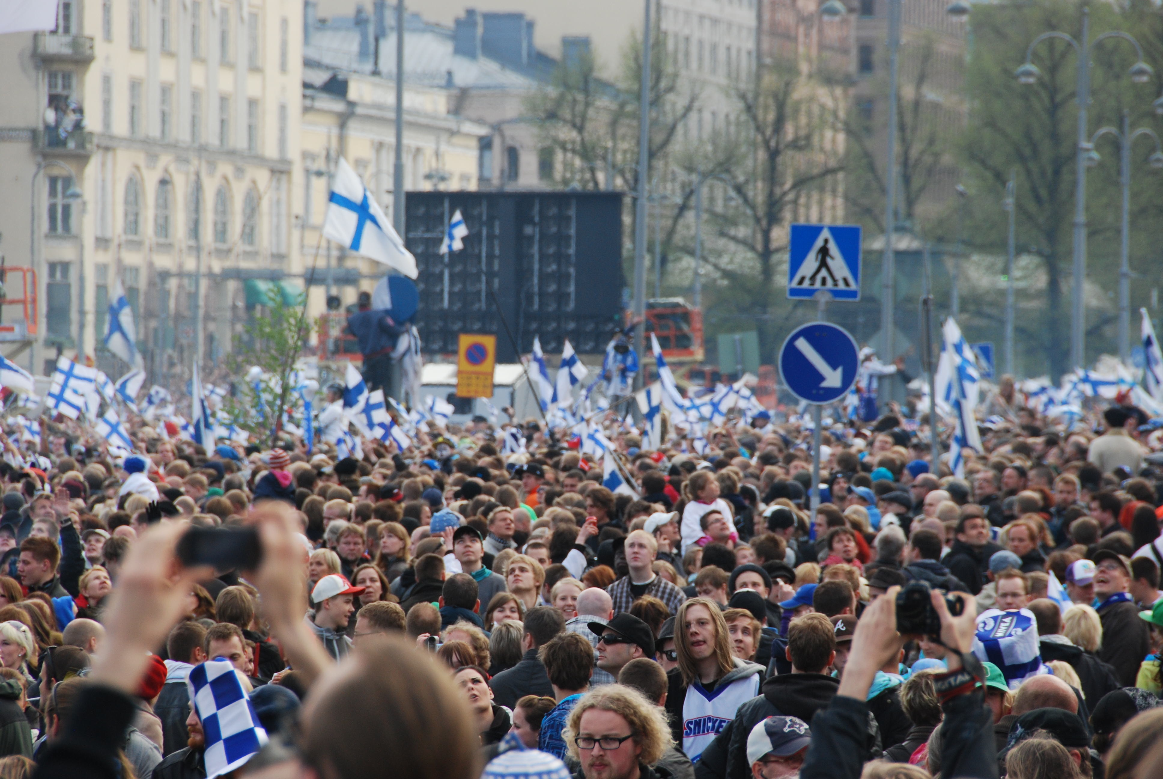 People celebrating Ice Hockey World Championship 2011, Market Square, Helsinki, Finland